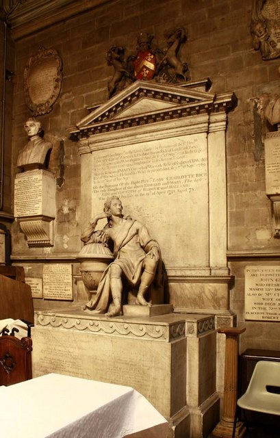 Monument to Edward Henry Rich, 10th Baron Rich, 8th Earl of Warwick and 5th Earl of Holland (1695–1759). He inherited the titles from his cousin Edward Henry Rich, 4th Earl of Holland, 7th Earl of Warwick (1697–1721), of Holland House, Kensington. With a seated figure of white marble, probably by J. B. Guelphi (Source: 'The village centres around St. Mary Abbots church and Notting Hill Gate', in Survey of London: Volume 37, Northern Kensington, ed. F H W Sheppard (London, 1973), pp. 25-41. British History Online St Mary Abbots Church, Kensington High Street, London W8, south transept. In various sources the monument is stated to be that of Edward Henry Rich, 4th Earl of Holland, 7th Earl of Warwick (1697–1721), which is clearly incorrect from the inscription of the top tablet (although perhaps the lengthy inscription on the base (not seen) would confirm the attribution to Edward Henry Rich, 4th Earl of Holland, 7th Earl of Warwick (1697–1721). Text of top tablet: (see better image[1]) Underneath lies interred the Rt Honble Edward Earl of Warwick & Holland Baron Rich of Leigh (i.e. Leez) who departed this life ye 7th of Sept 1759.....titles became extinct. Also the remains of Mary Countess of Warwick relict of ye above Edward Earl of Warwick & Holland, etc., who departed this life ye .. of Nov'r 1769 in the (80th?) year of her age. Also the remains of the Rt Honble Lady Charlotte Rich (the only daughter of the above Edward and Mary, the last Earl and Countess of Warwick and Holland) who departed this life on the 12th of April 1791 aged 78